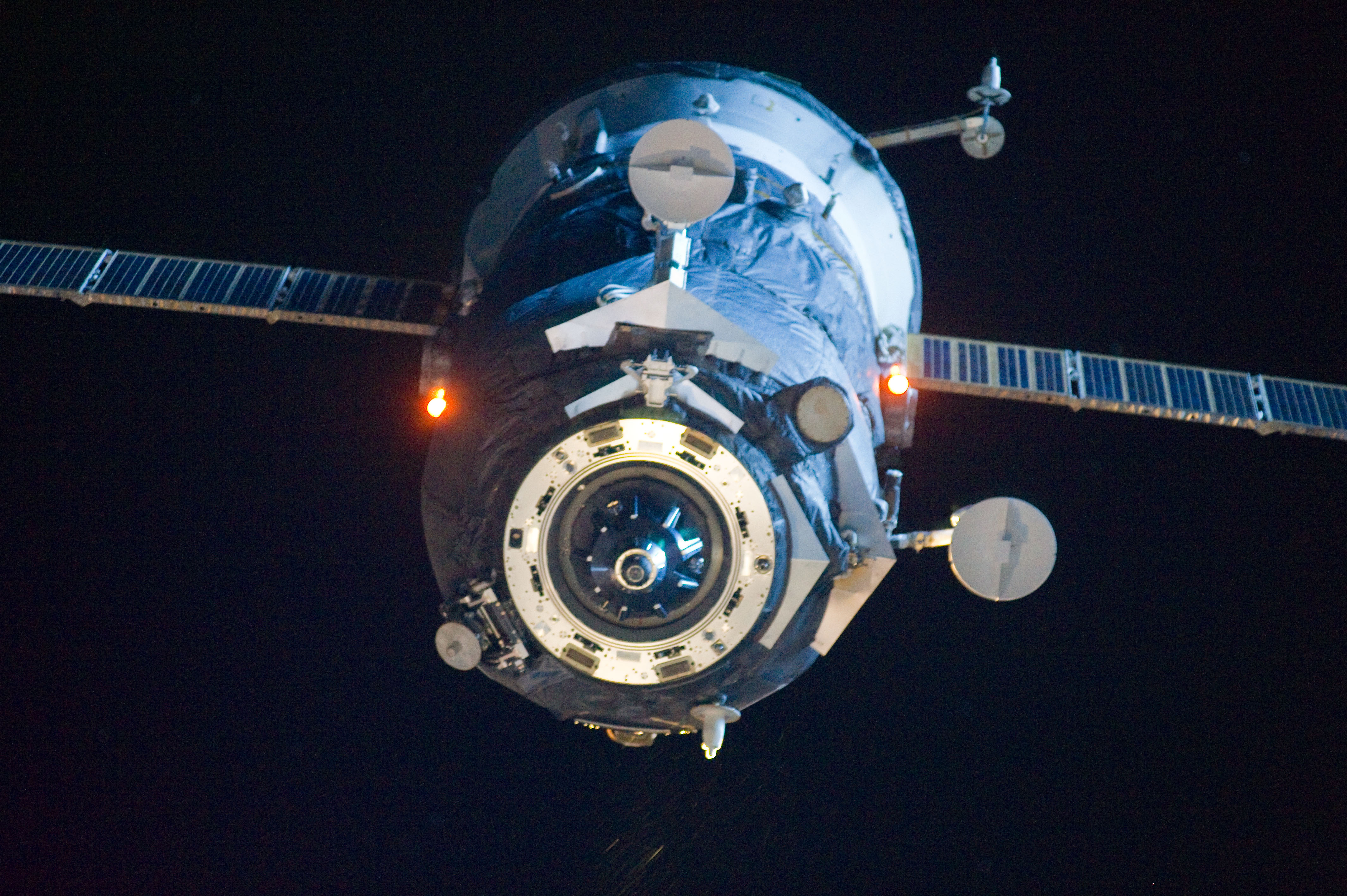 The unpiloted ISS Progress 35 supply vehicle departs from the International Space Station's Pirs Docking Compartment on April 22, 2010. Filled with trash and discarded items, the Progress will be used for scientific experiments until it is deorbited and burned up in Earth's atmosphere. Its departure clears the way for the ISS Progress 37 cargo ship that is scheduled to launch to the station April 28.